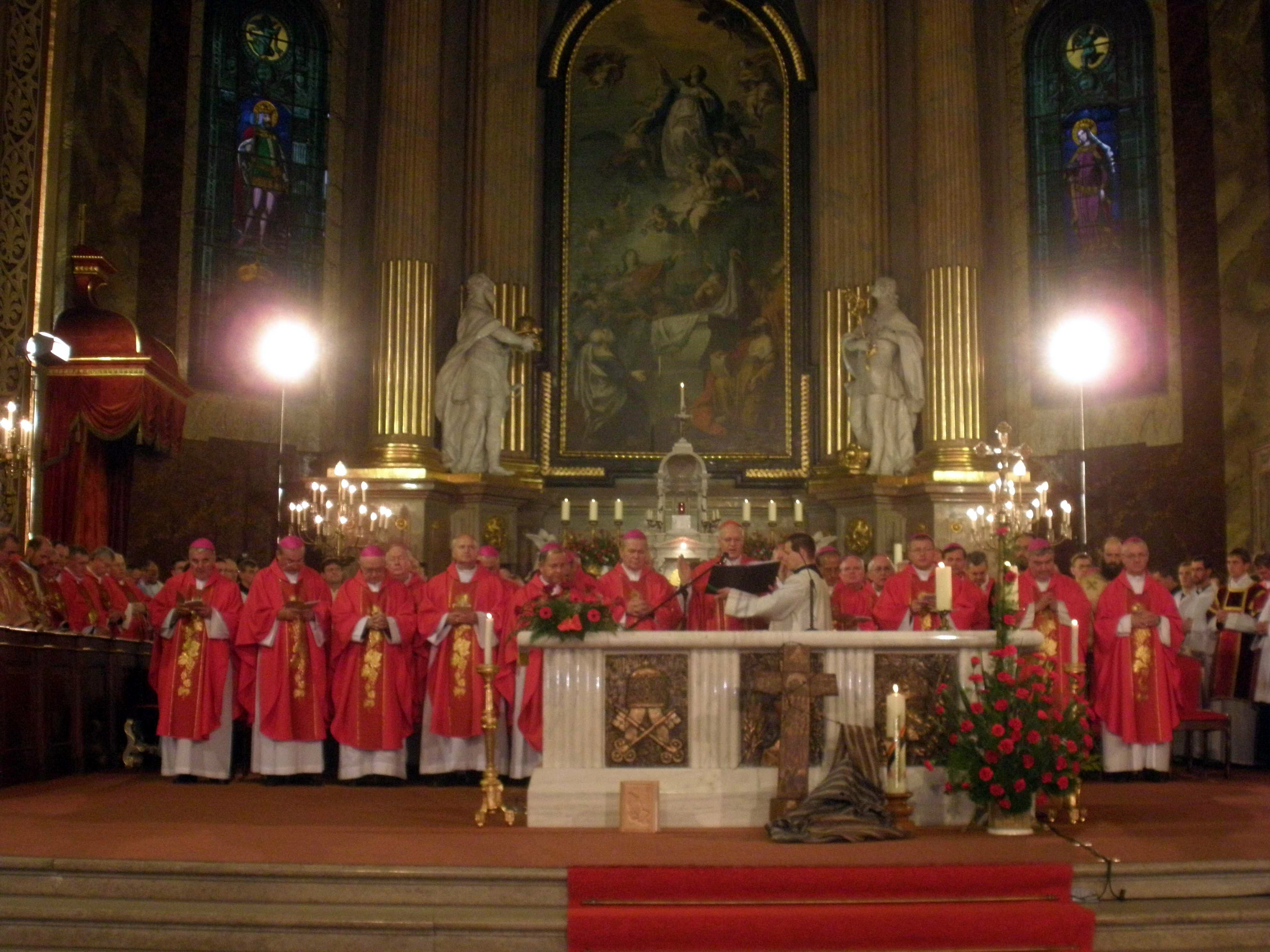 first oratio to Blessed Szilárd Bogdánffy in bazilika in Oradea (Nagyvárad) Romania